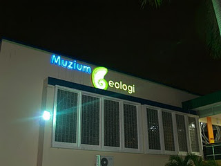 Night View of JMG Geological Museum Ipoh